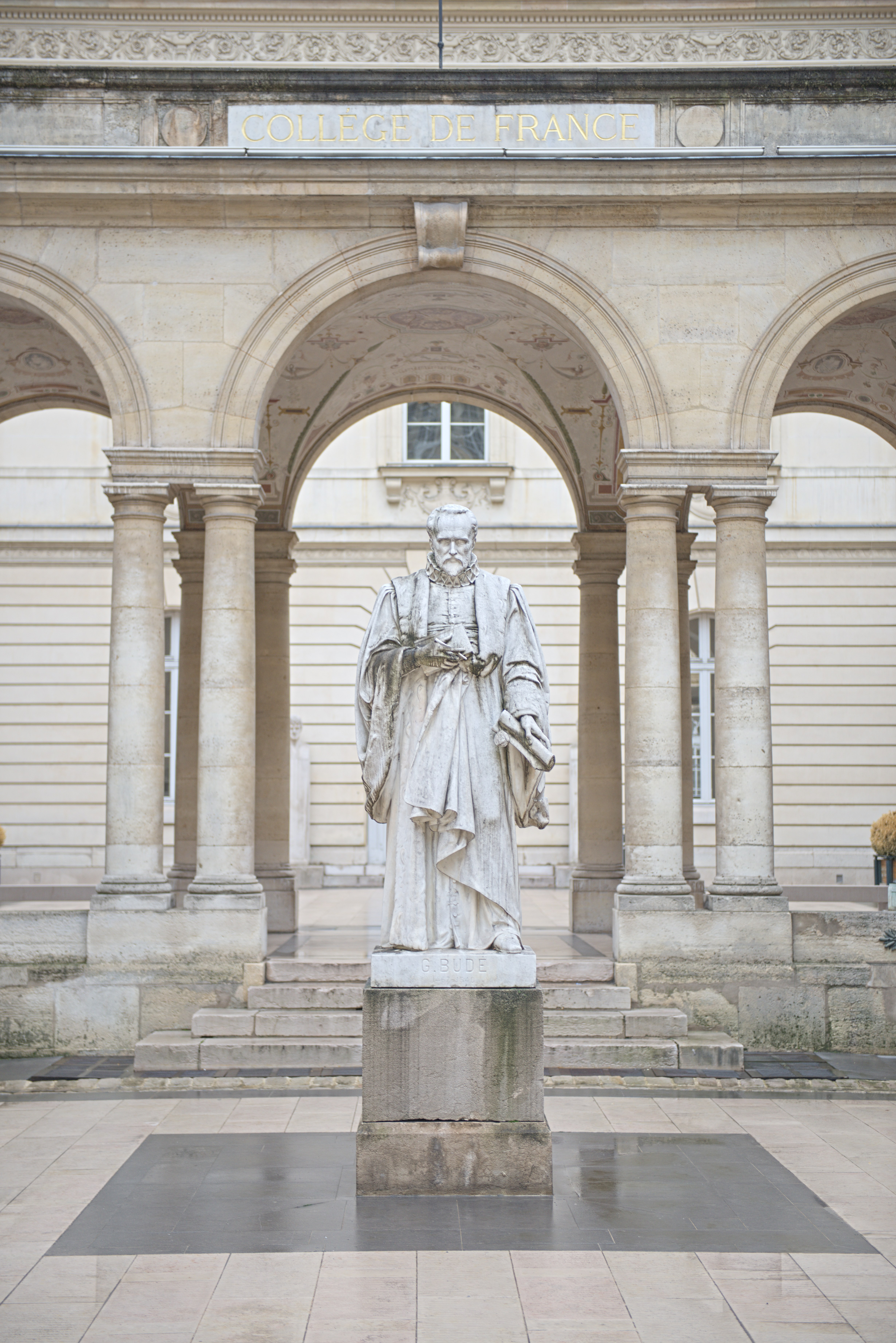 Guillaume Budé statue at Collège de France in Paris, France